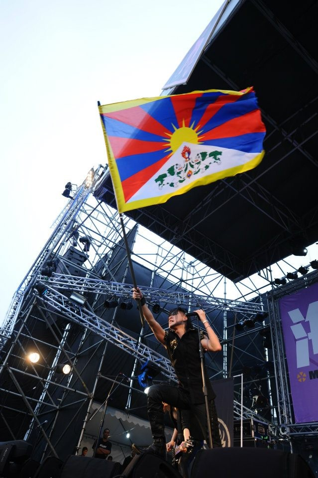 Freddy Lim, founder of ChthoniC